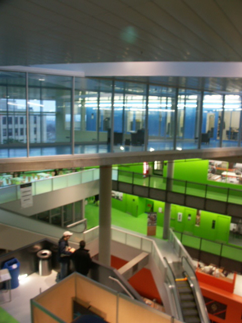 Polytechnique of Montreal, the three floors of the Lassonde buildings. View on the main building of Université de Montréal.